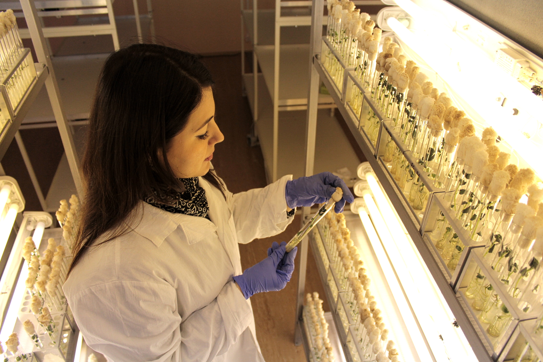 Scientific research in the area of microclonal proliferation of potatoes are conducted in Saint-Petersburg State Agrarian University. Sampling of the small plants of potatoes.